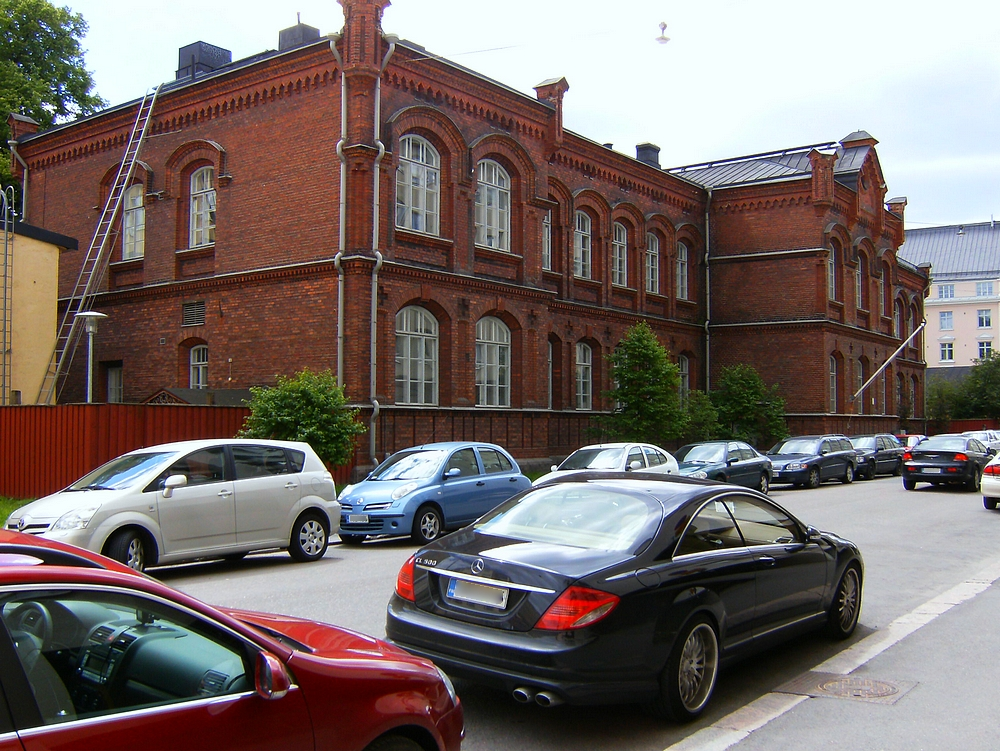 Kalevankatu 48, Helsinki, Finland